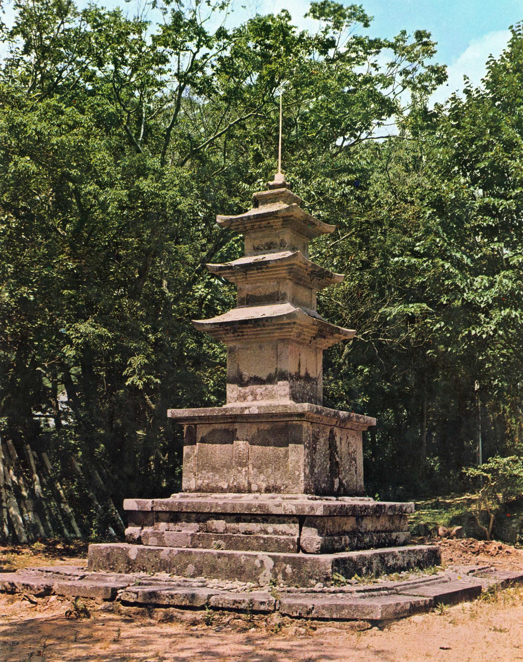 Three-story Stone Pagoda at Geumdangam in Donghwasa temple Daegu, Korea